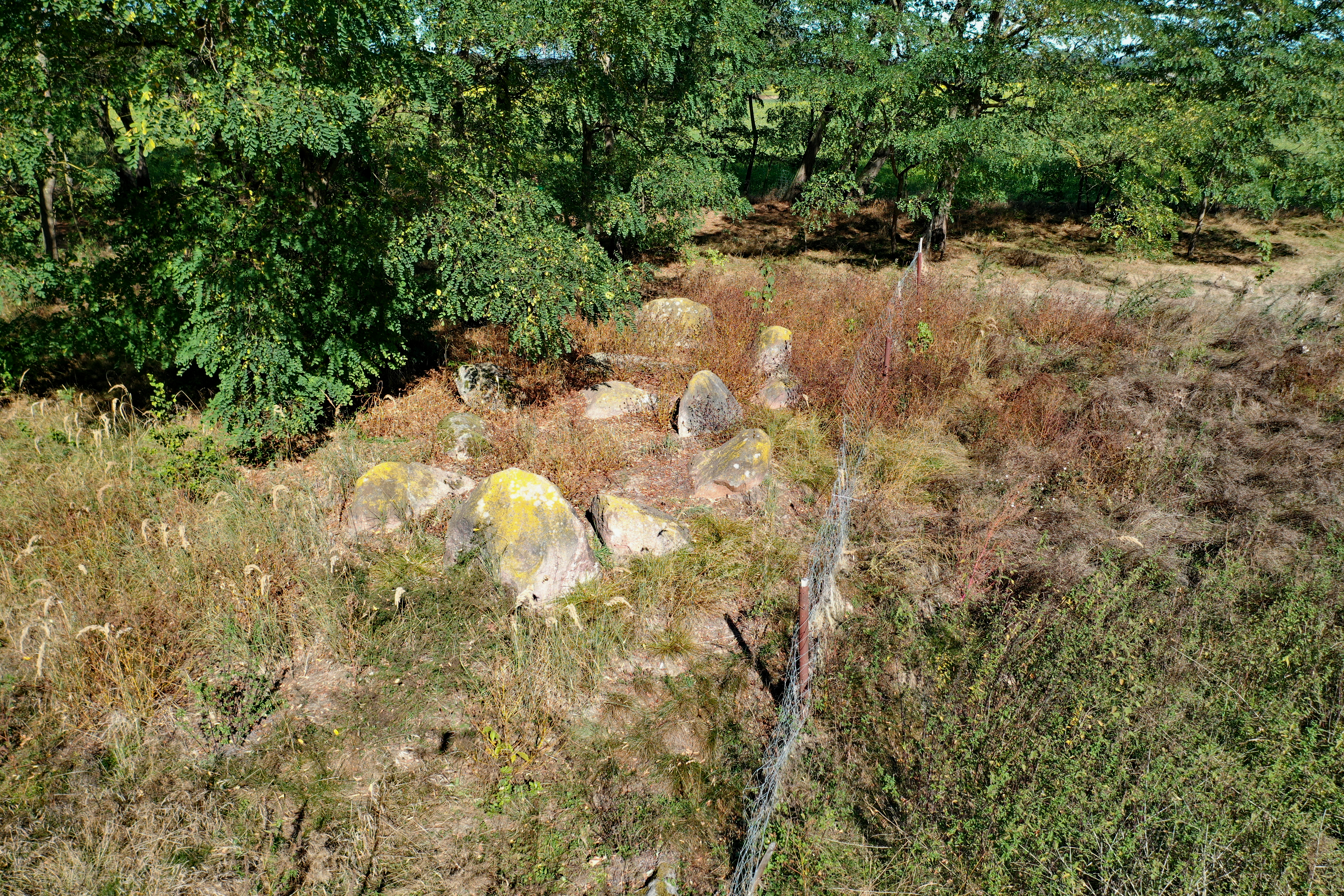 Megalithic in Altmark (Saxony-Anhalt, Germany) Leetze 4